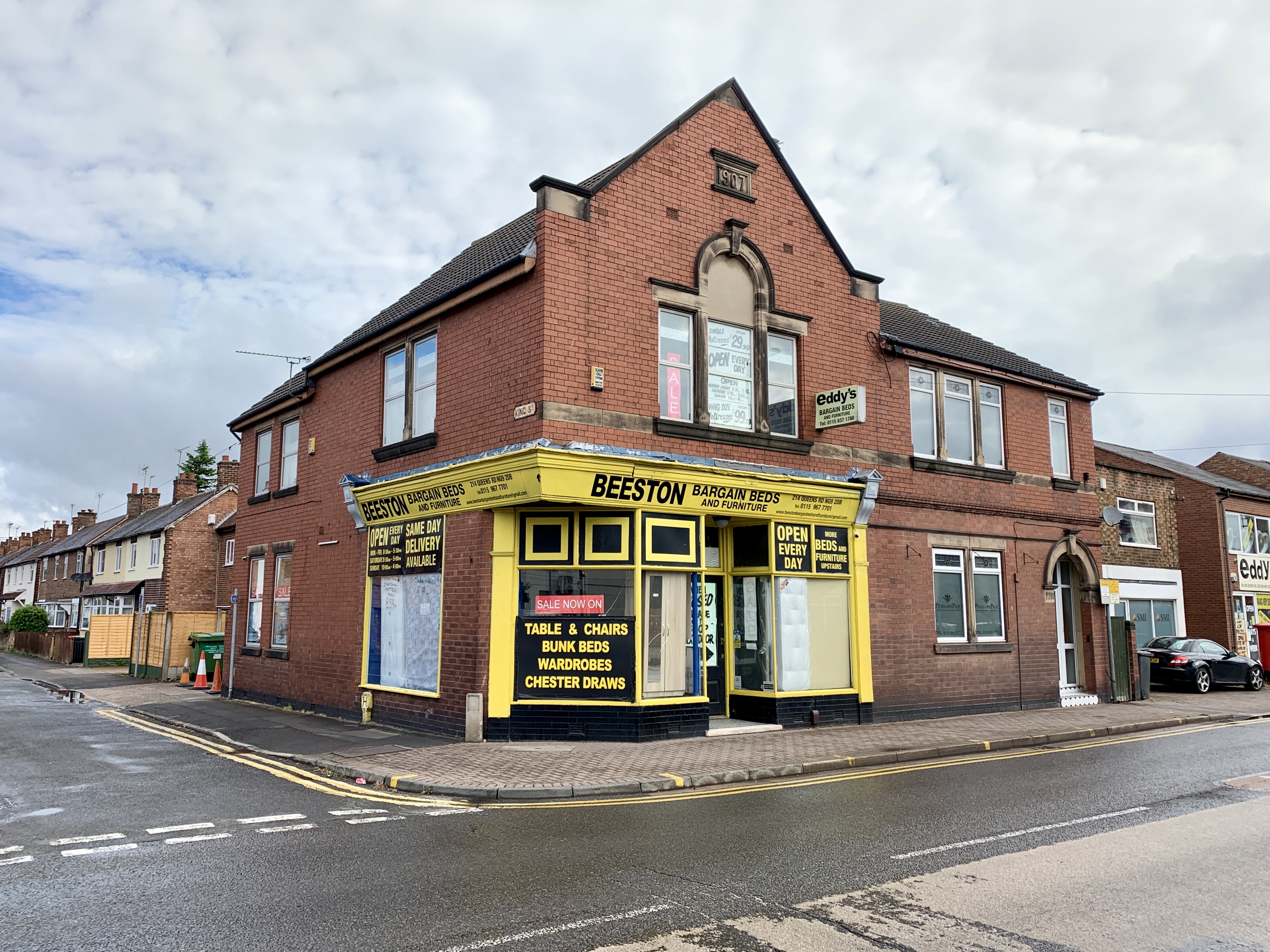 Built as the Co-operative stores in 1907 to the designs of the architect William Vallance Betts. Originally at 101 Queen's Road, now at 214 (following the renumbering of Queen's Road ca. 1941).